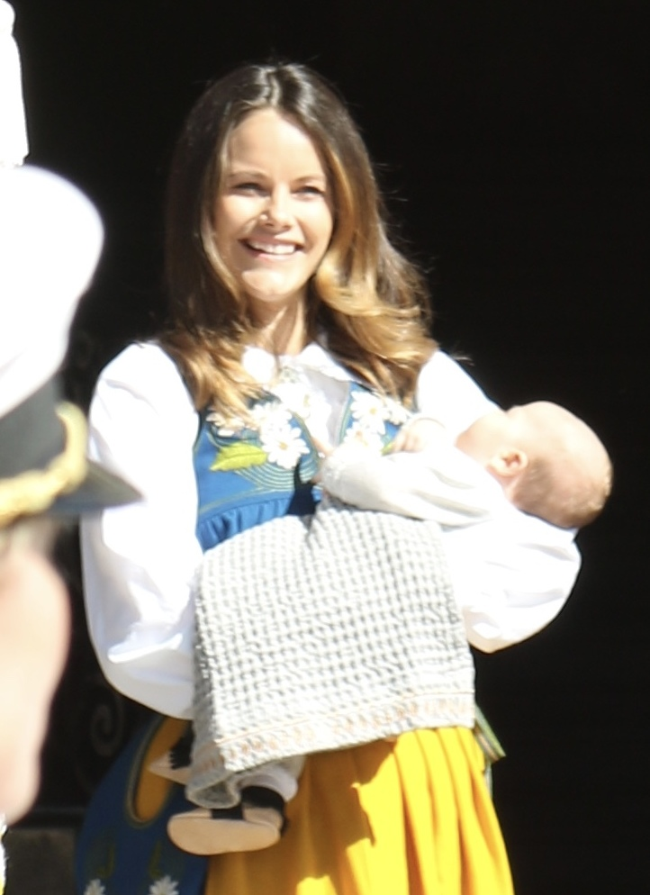 Prince Alexander, held by his mother, Princess Sofia at the opening of the Palace in Stockholm on Swedish National Day